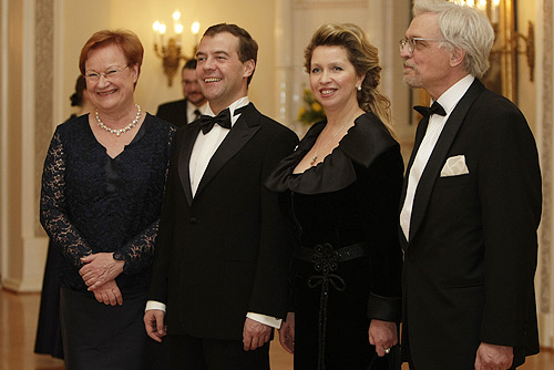 HELSINKI. Before the start of an official reception given by President of Finland Tarja Halonen and her husband Pentti Arajarvi in honour of Dmitry Medvedev and his wife Svetlana.